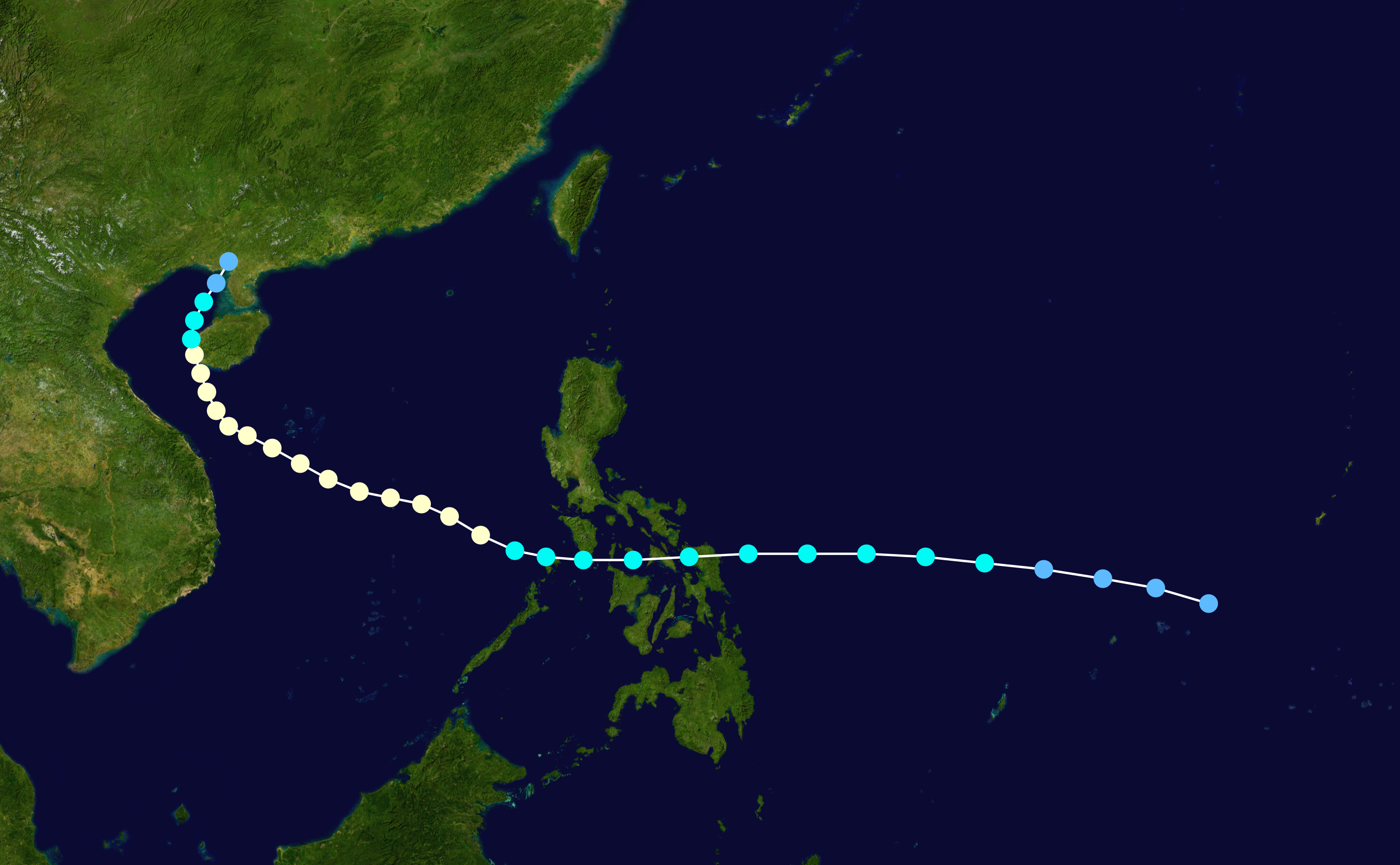 Typhoon Nepartak 2003 track. Uses the color scheme from the Saffir-Simpson Hurricane Scale.